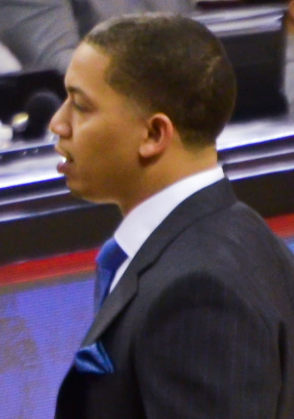 Cleveland Cavaliers assistant coach Tyronn Lue.